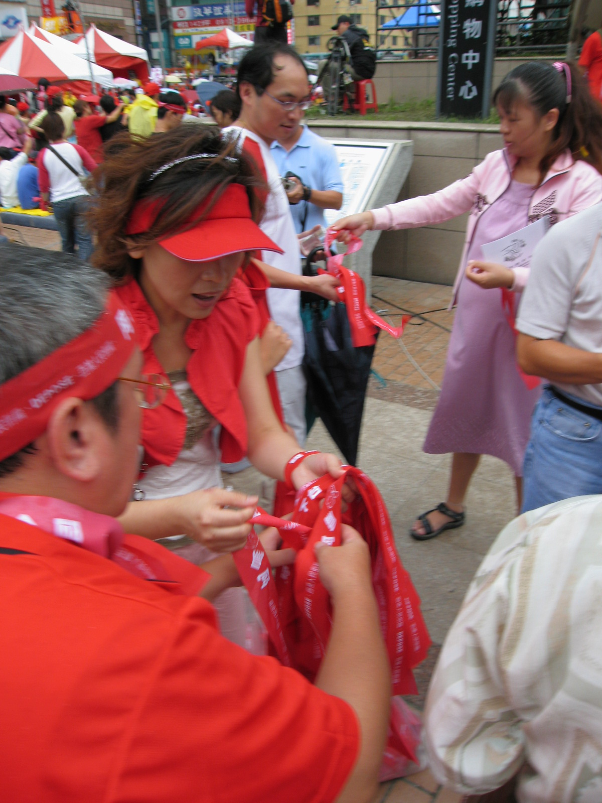 A woman is handing out red ribbons around the afternoon during the Million Voices against Corruption, President Chen Must Go protest to the supporters of the protest.